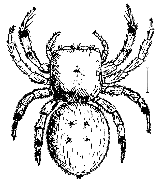 Irura pygaea female, from Workman, 1896. Specimen from Pinang, Malaysia.